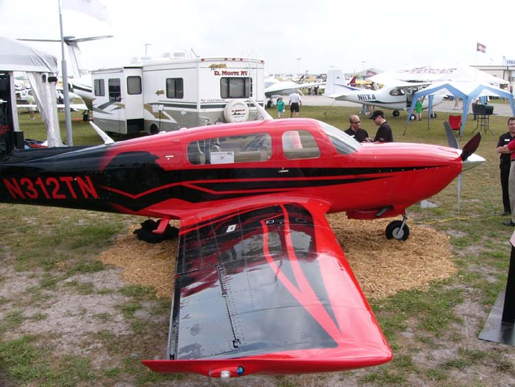 Photo taken at the 2006 Sun 'n Fun fly in. Shows the distinct paint scheme of the second Mooney M20TN Acclaim (N312TN). Soon to be mass produced at the Kerrville plant.